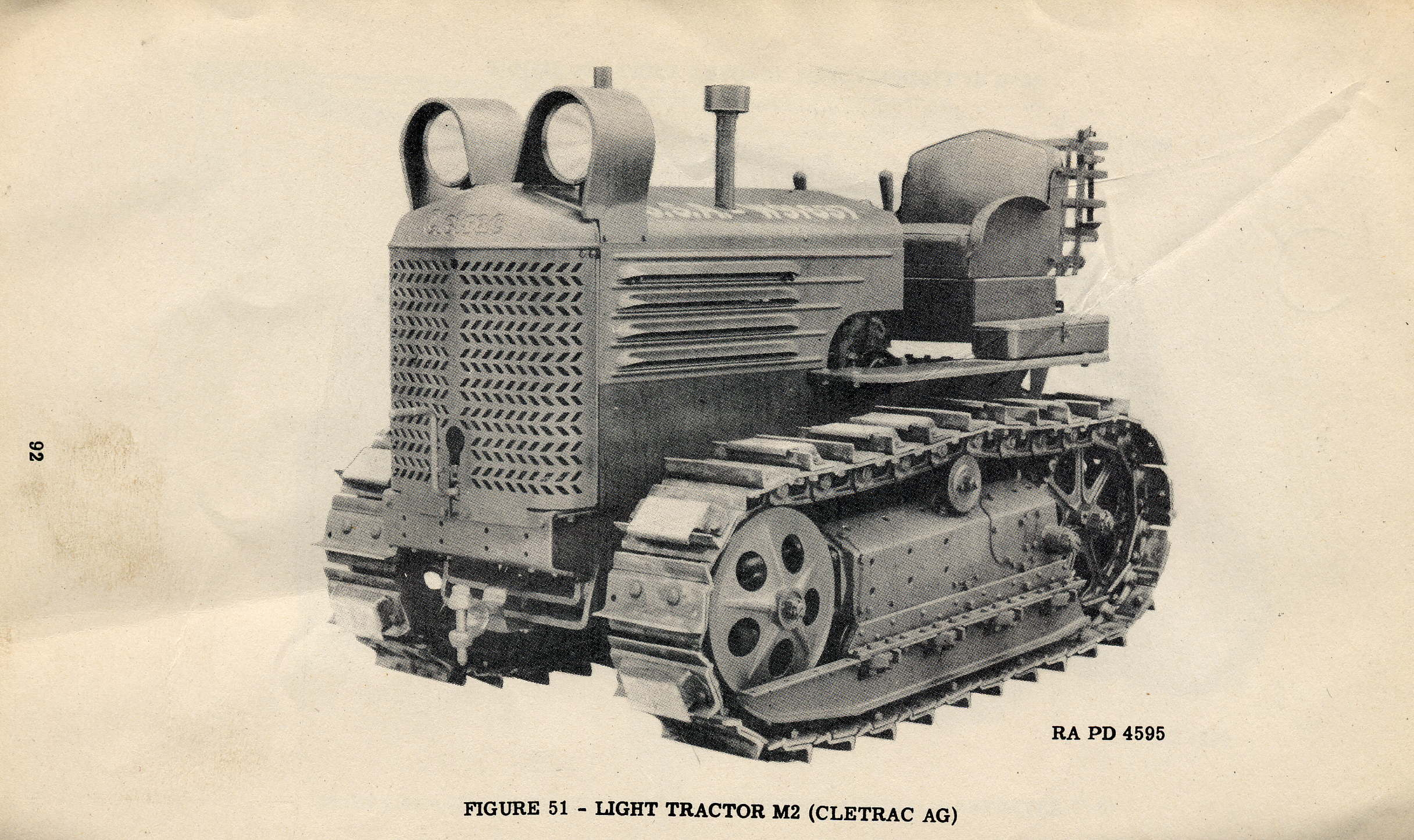 M2 light tractor clevland tractor co. model AG